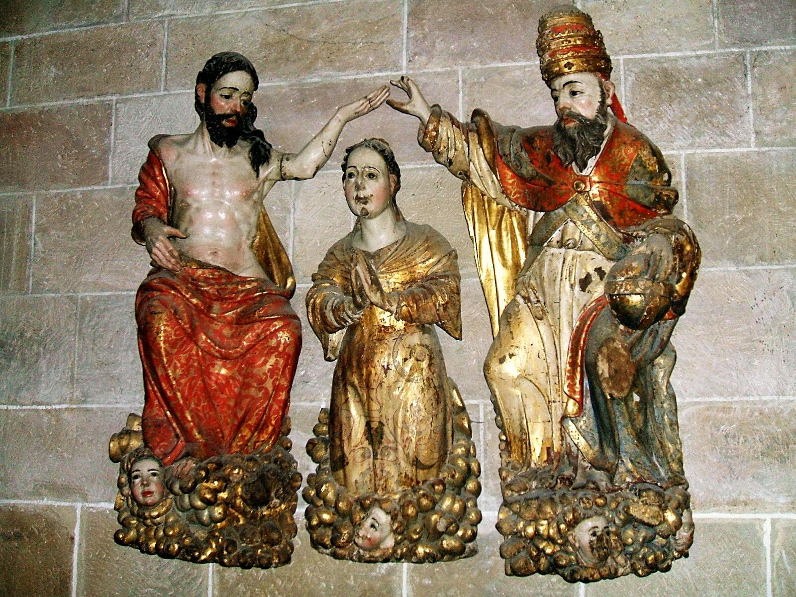 Conjunto escultórico en la Capilla del Santo Cristo de la Colegiata de San Miguel Arcángel de Aguilar de Campoo, Palencia, España